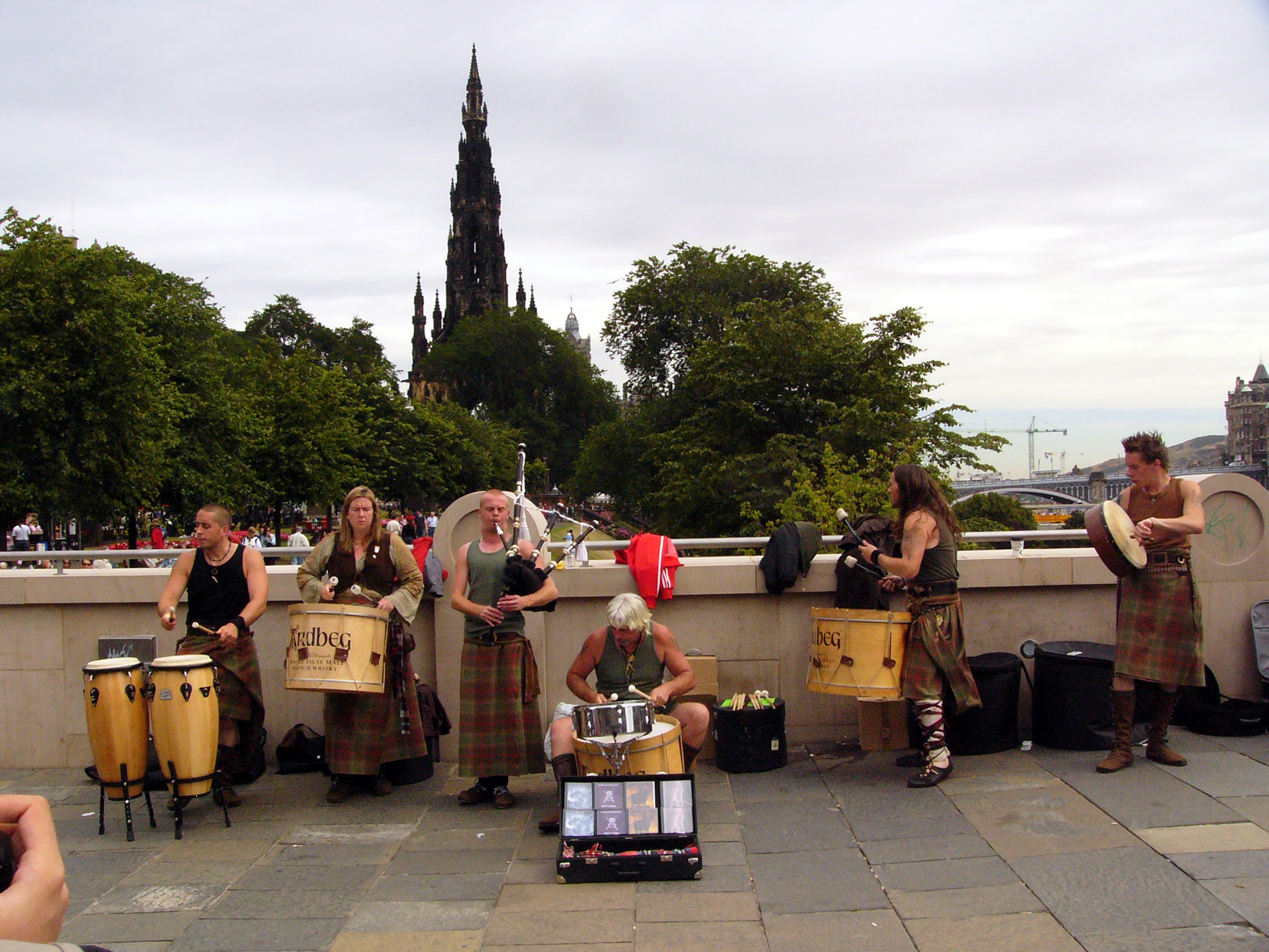 Street musicians in Edinburgh.